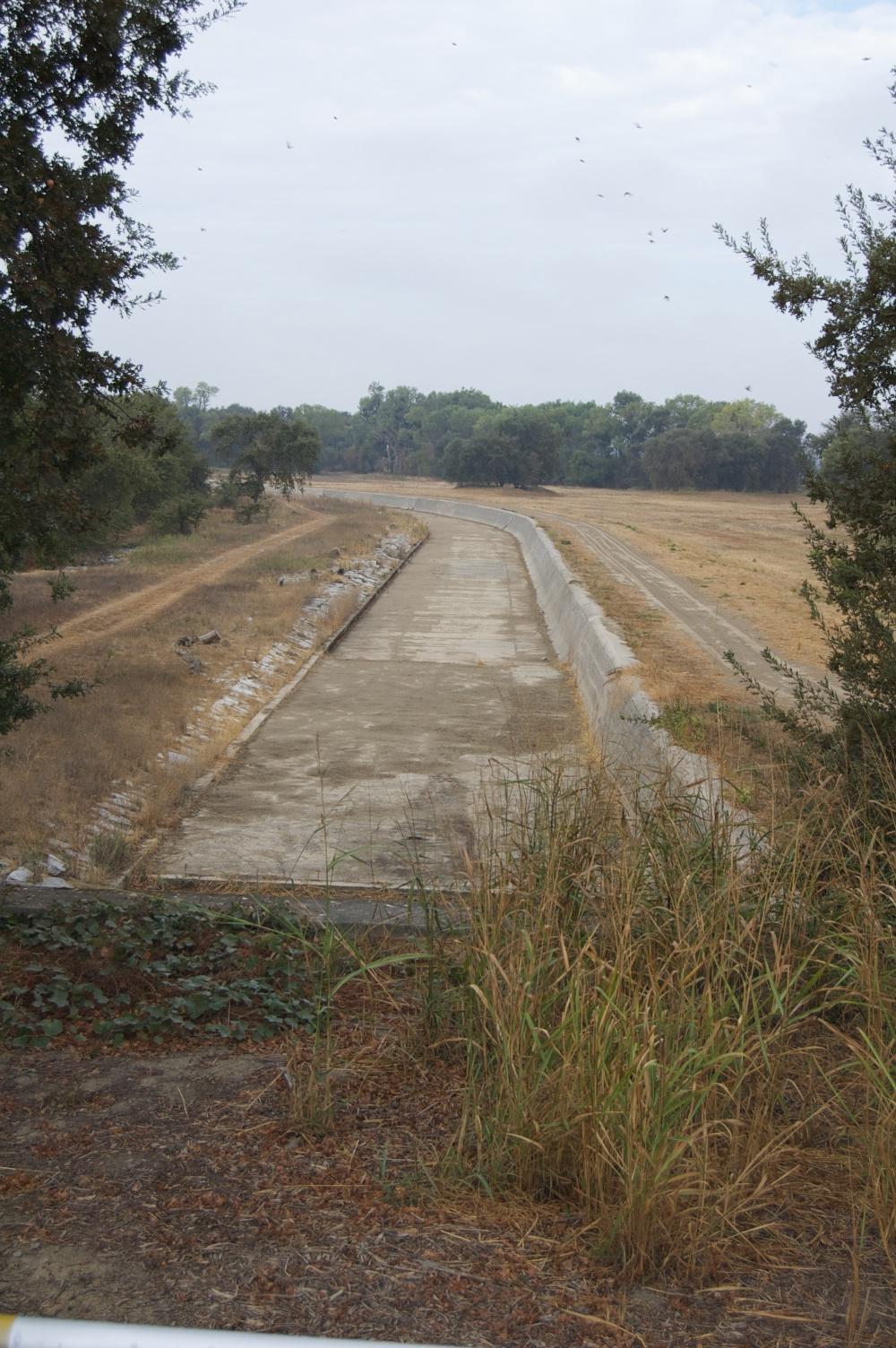 USFWS photo/Steve Culberson